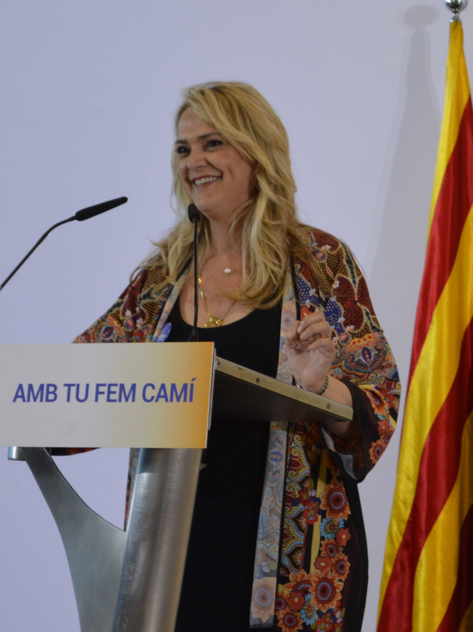 Violant Cervera en l'acte de Lleida